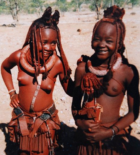 Two very young Himba wives from Kaokofeld in Northen Namibia. The Erembe headdress indicates both are married. The doll is not to play with, but represents a desire to be fertilized to become pregnant.